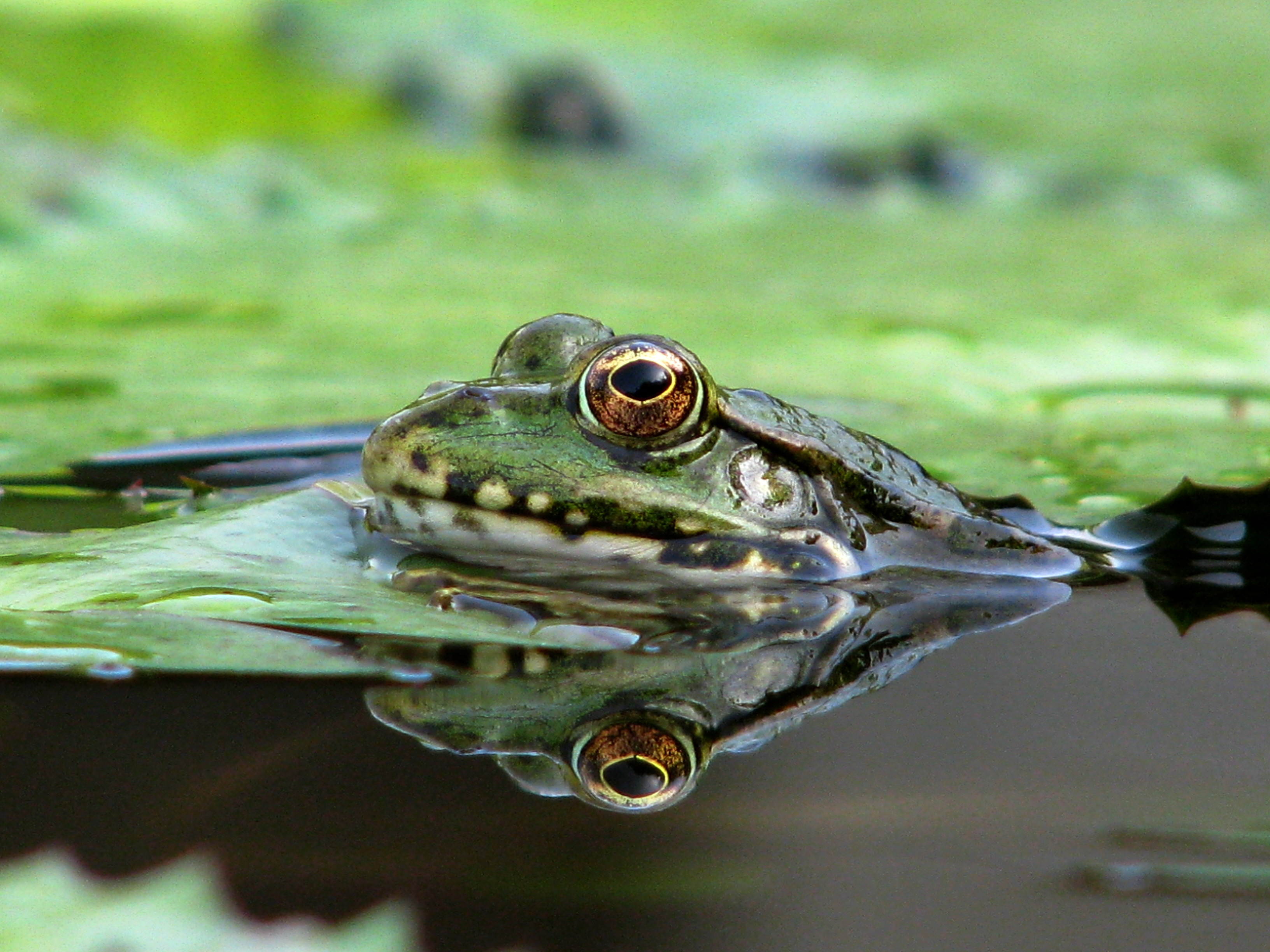 Zürich, Weinegg quarter (Riesbach, district 8) : Botanical Garden, Edible Frog